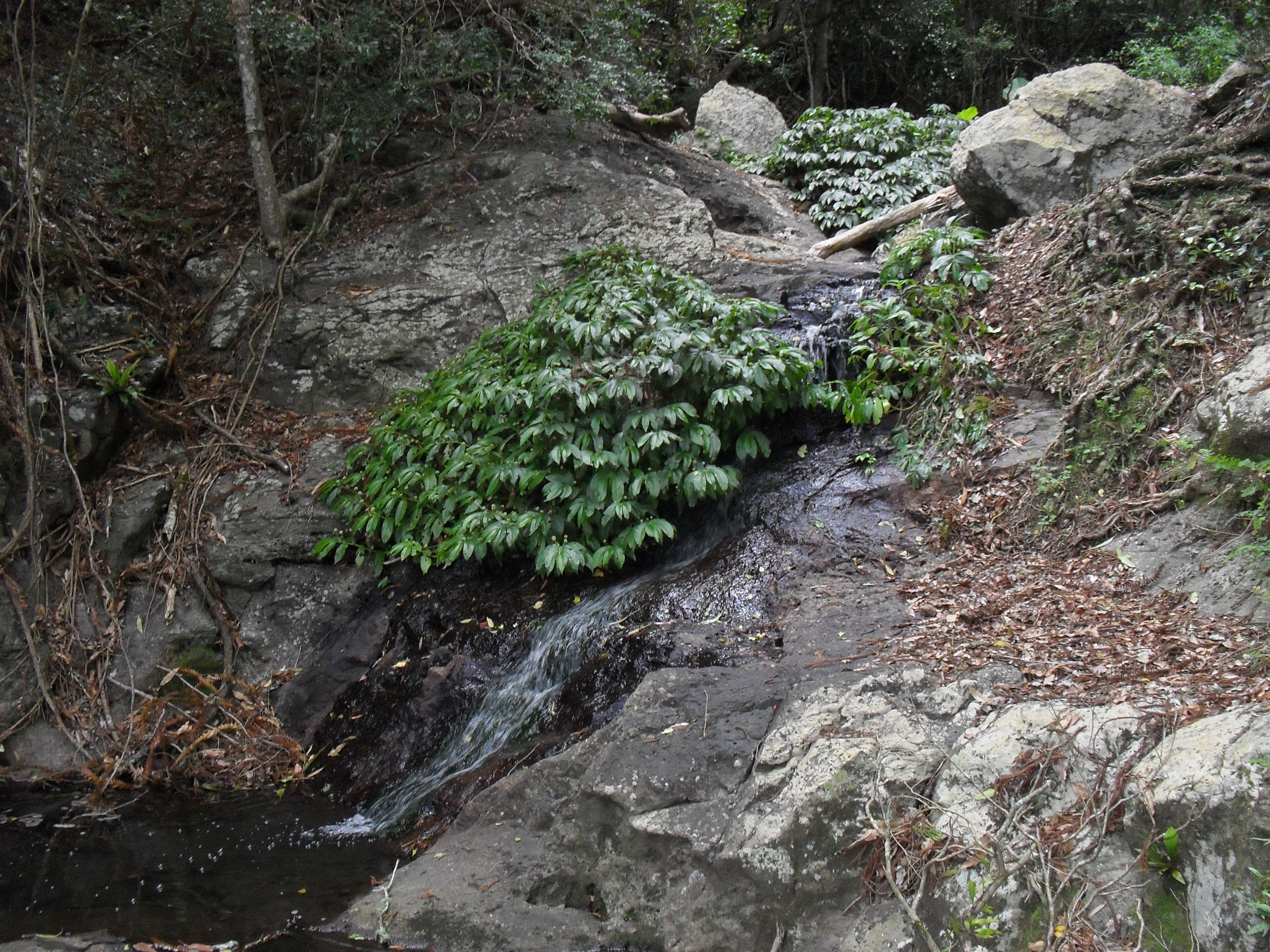 The final cascade before the main plunge of Mcgrory Falls.